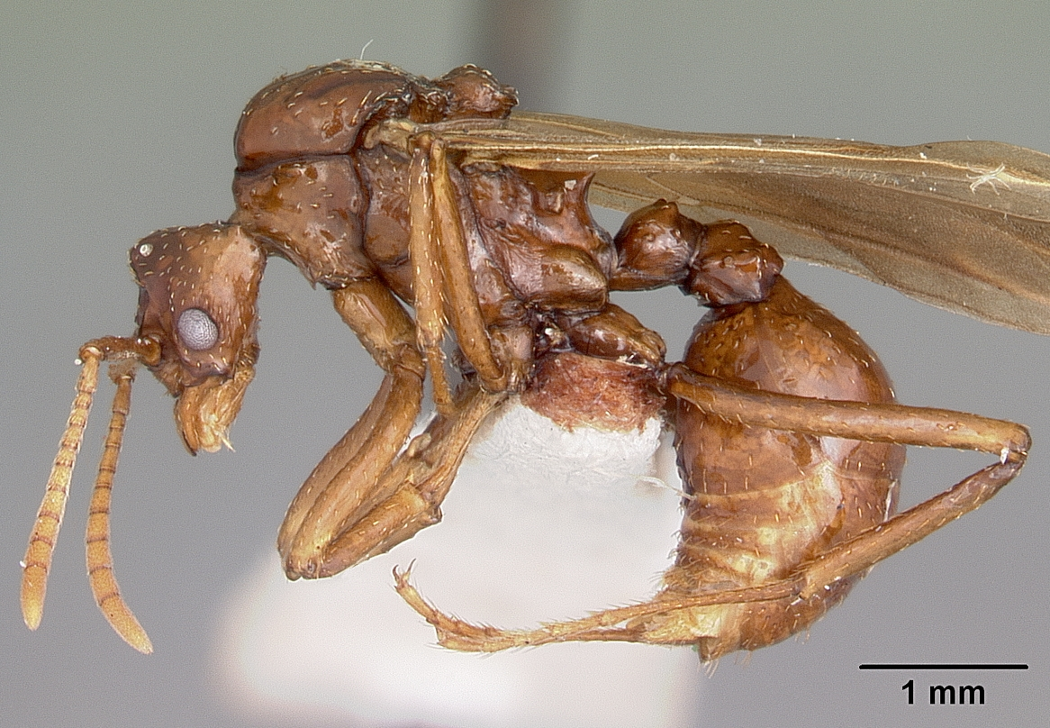 Profile view of ant Pseudoatta argentina specimen casent0104658.